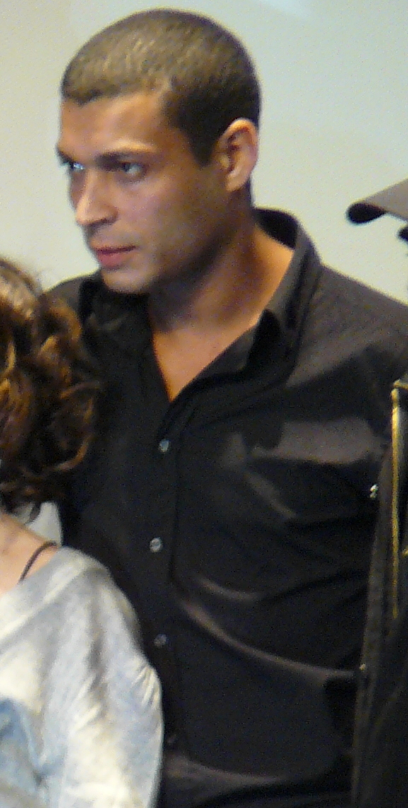 Cast of French film Frontière(s). Photo shot in Gerardmer during Fantastic'arts festival. From left to right : Samuel Le Bihan, Karina Testa, Aurélien Wiik, Maud Forget, Adel Bencherif, Xavier Gens